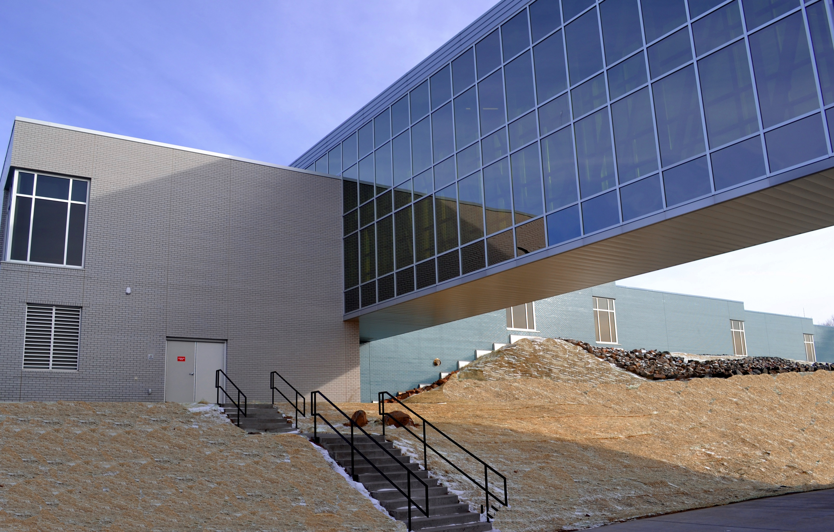 One angle of LSC's new Health and Science Building.